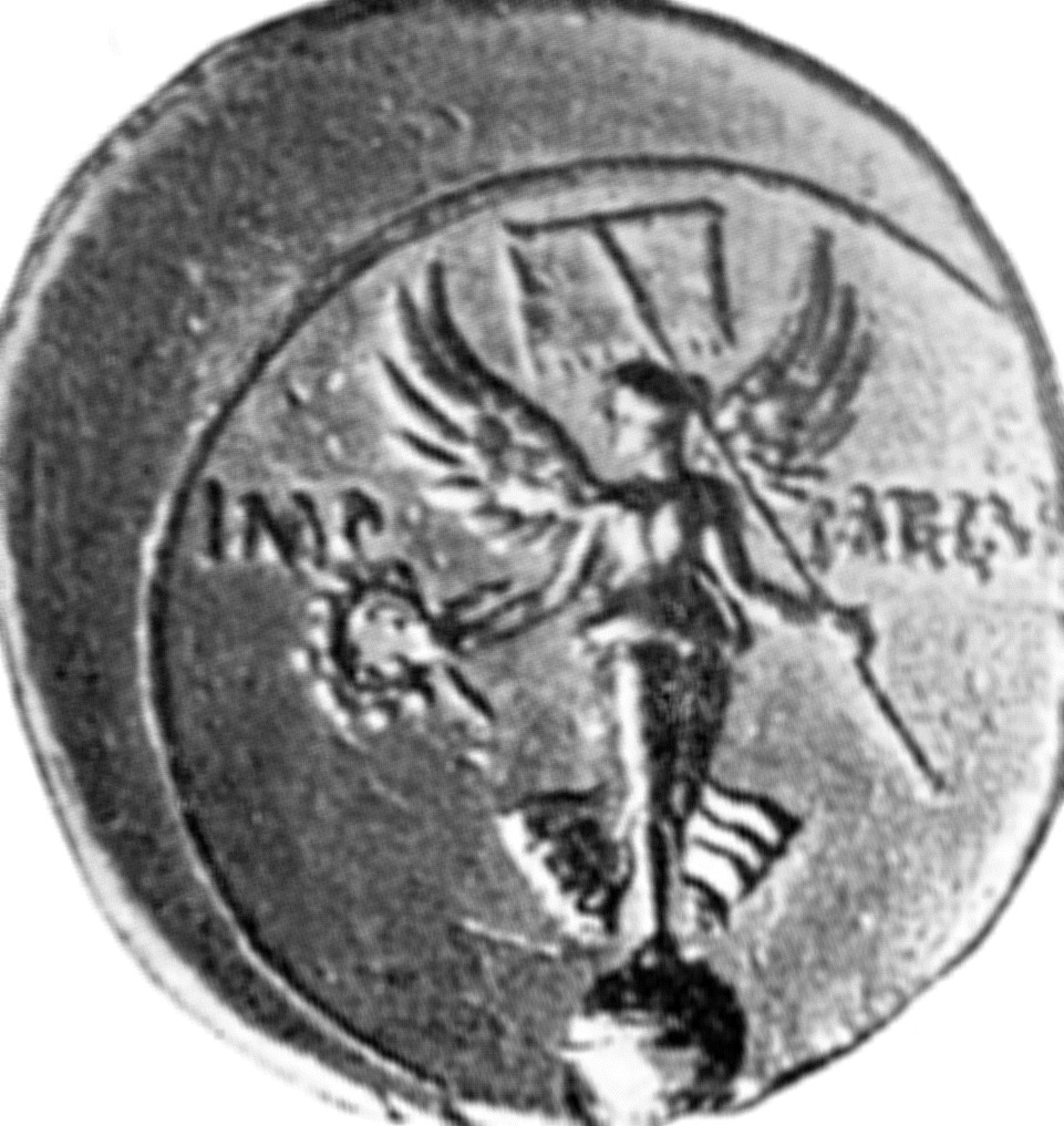 Verso of a quinarius of the Emperor Augustus. Image of the statue of Victory. Remnants of the statue's plinth have been found. The depiction matches the description of the statue of Victory by Prudentius, Libri contra Symmachum 2.